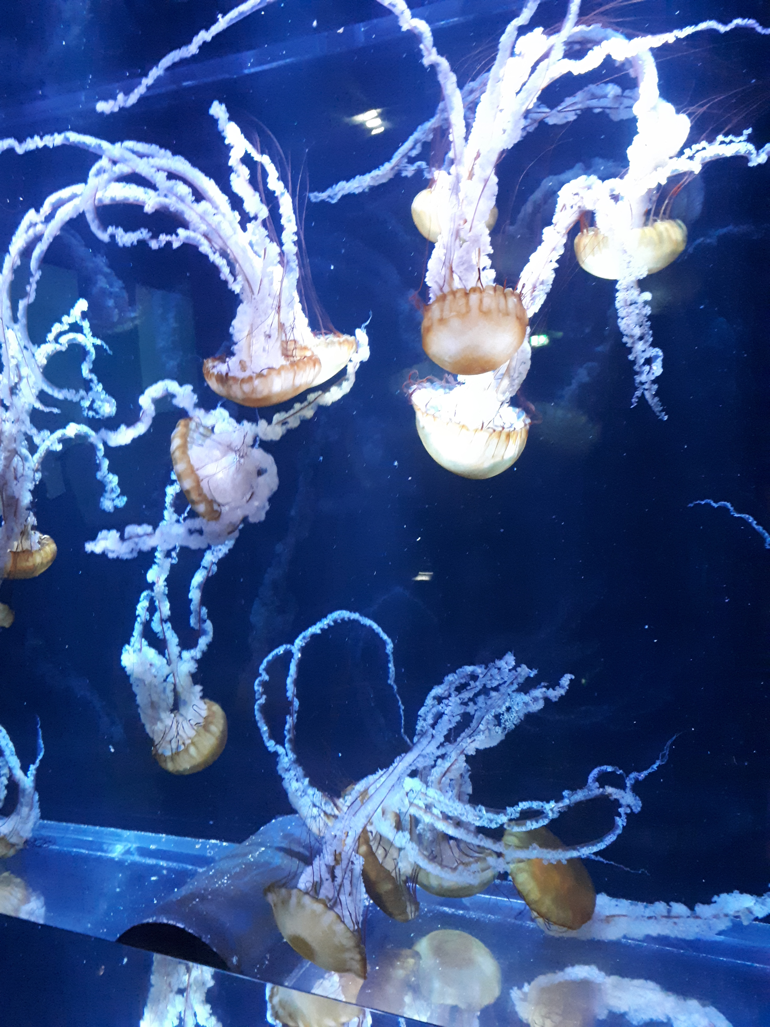 Jellyfishes in the National Center of the sea Nausicaa in Boulogne-sur-mer (Pas-de-Calais, France).